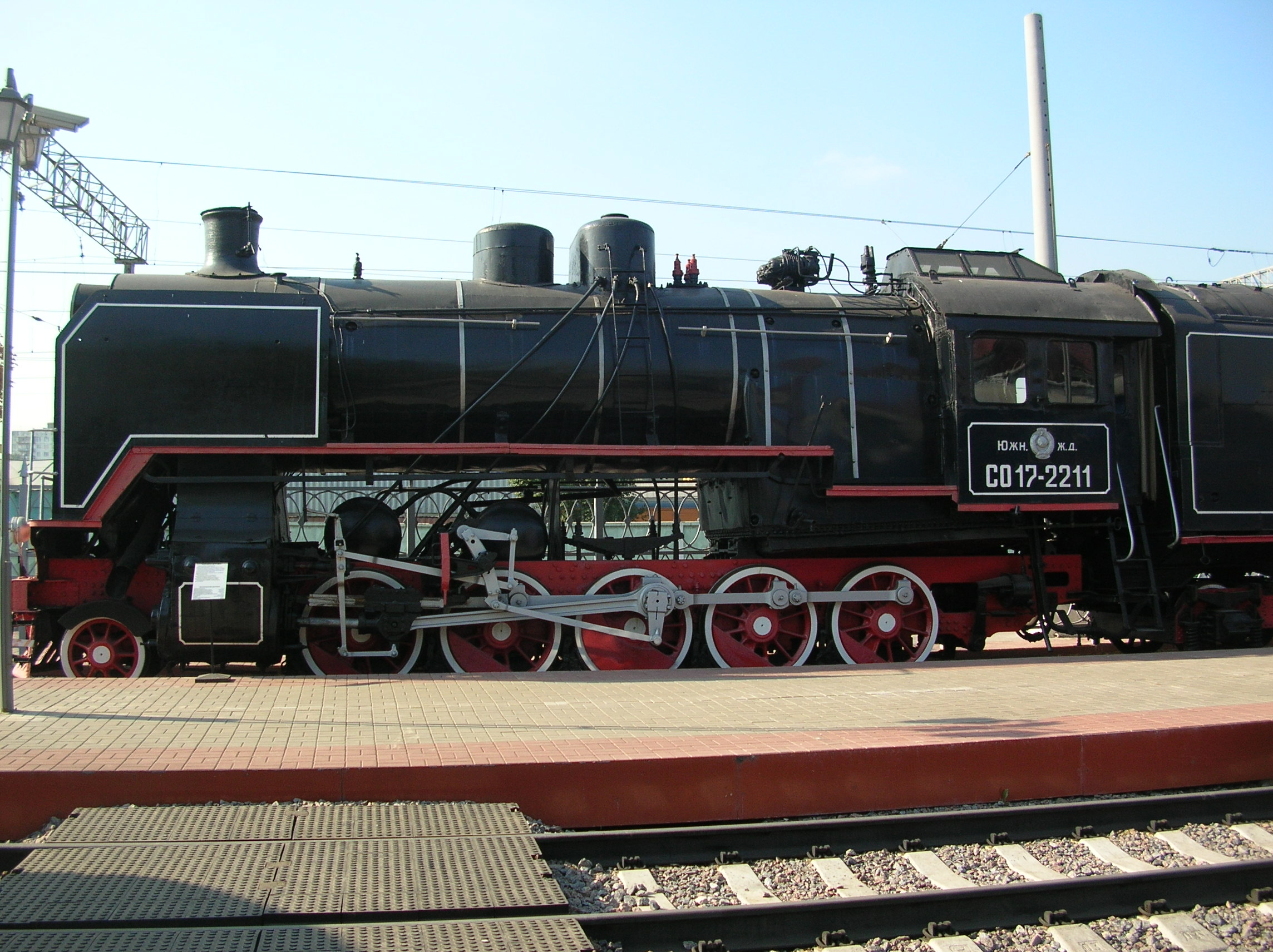 Russian steam locomotive CO1722-11. Moscow railroad museum